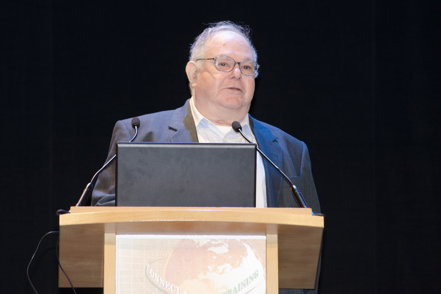 Arthur M. Lesk speaking at the Intelligent Systems for Molecular Biology conference in 2015